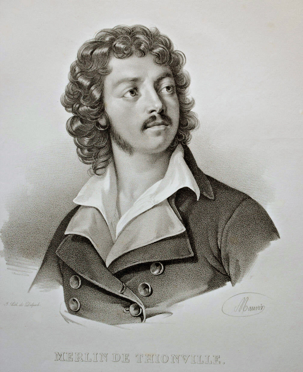 Portrait of Antoine Merlin de Thionville (1762-1833).